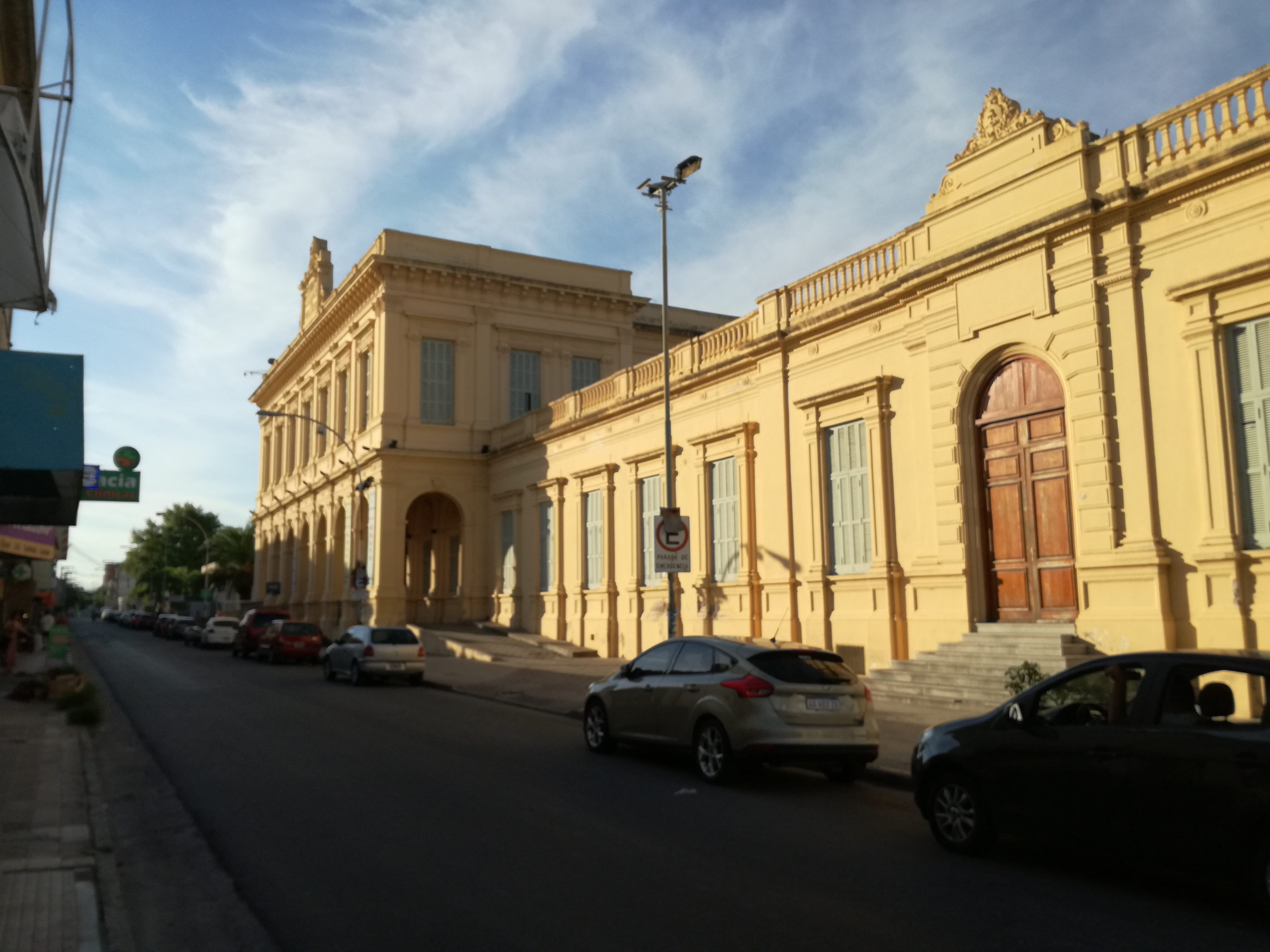 Hospital de Clínicas - Barrio Alberdi - Córdoba